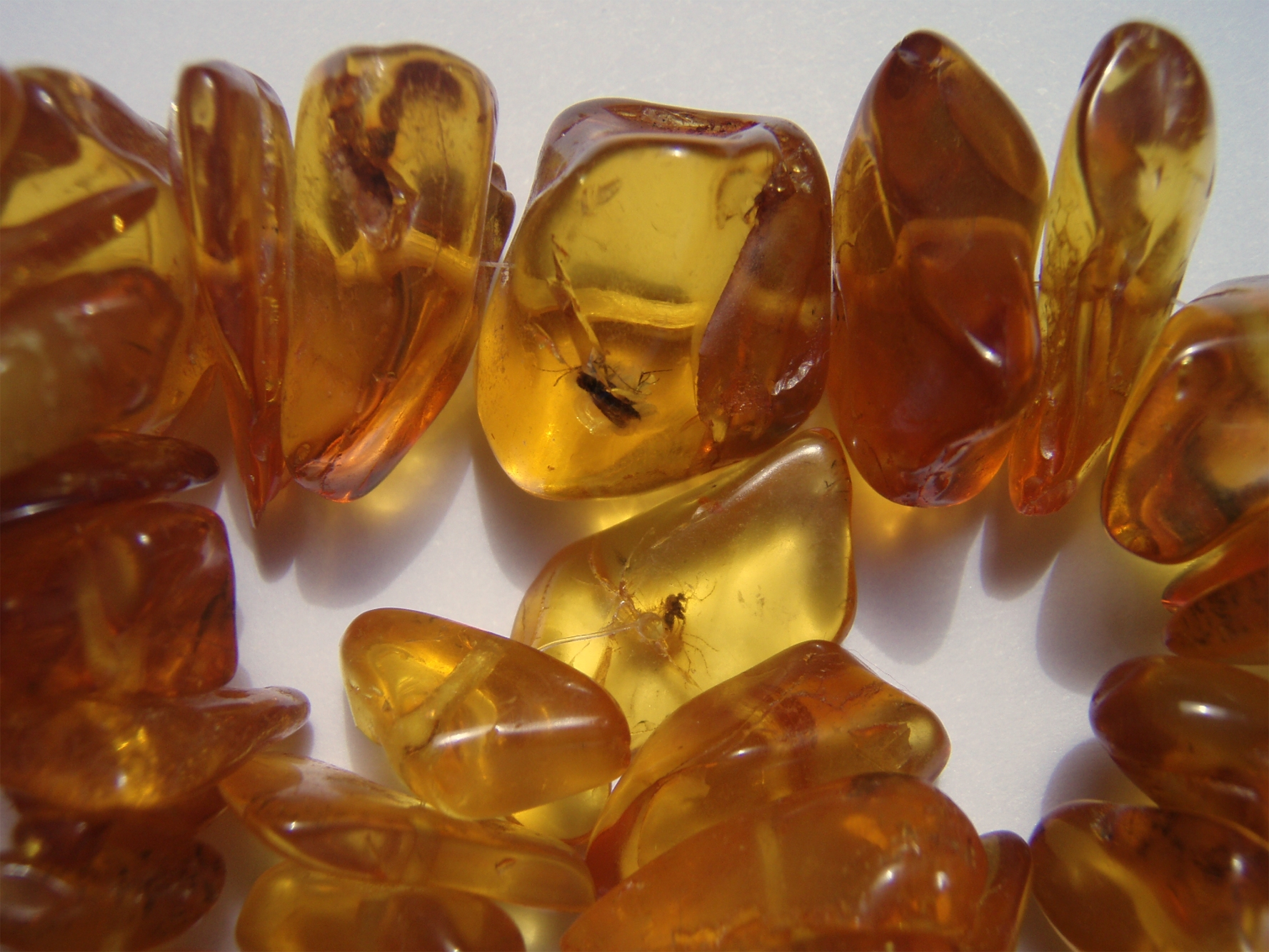 A mosquito and a fly in Baltic amber necklace are between 40 and 60 million years old. Please note the mosquito survived the hole, which was drilled to make the necklace.